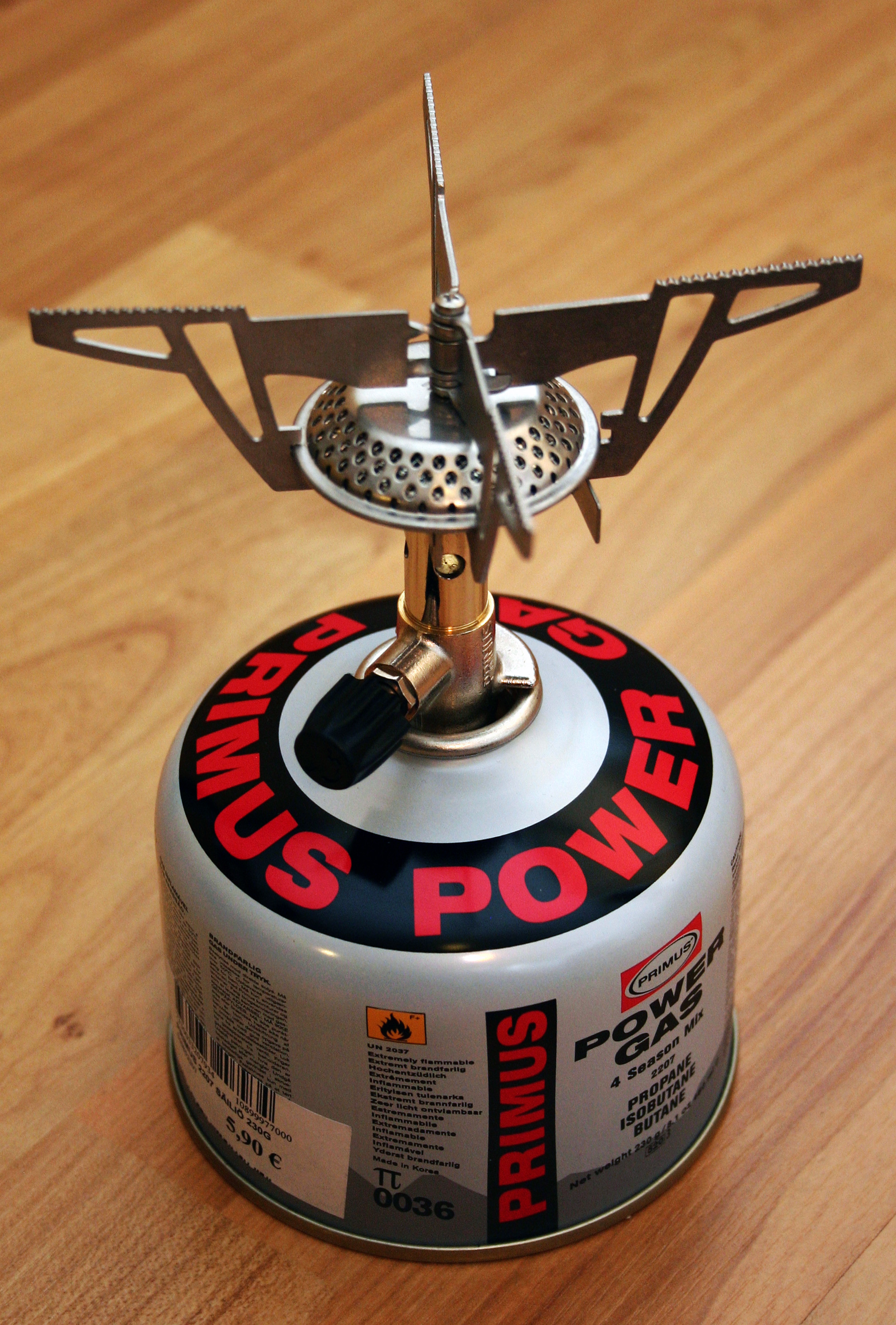 Portable Primus gas stove